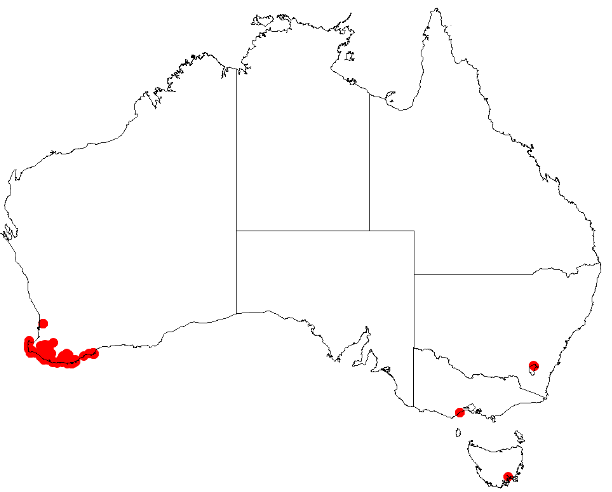 Hakea oleifolia Occurrence data downloaded from AVH on 22 November 2018 using